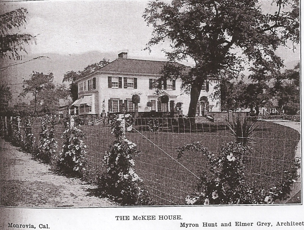 McKee House, Monrovia, California Source=Architectural Record, October 1906, p. 295 Published in the United States before 1923.